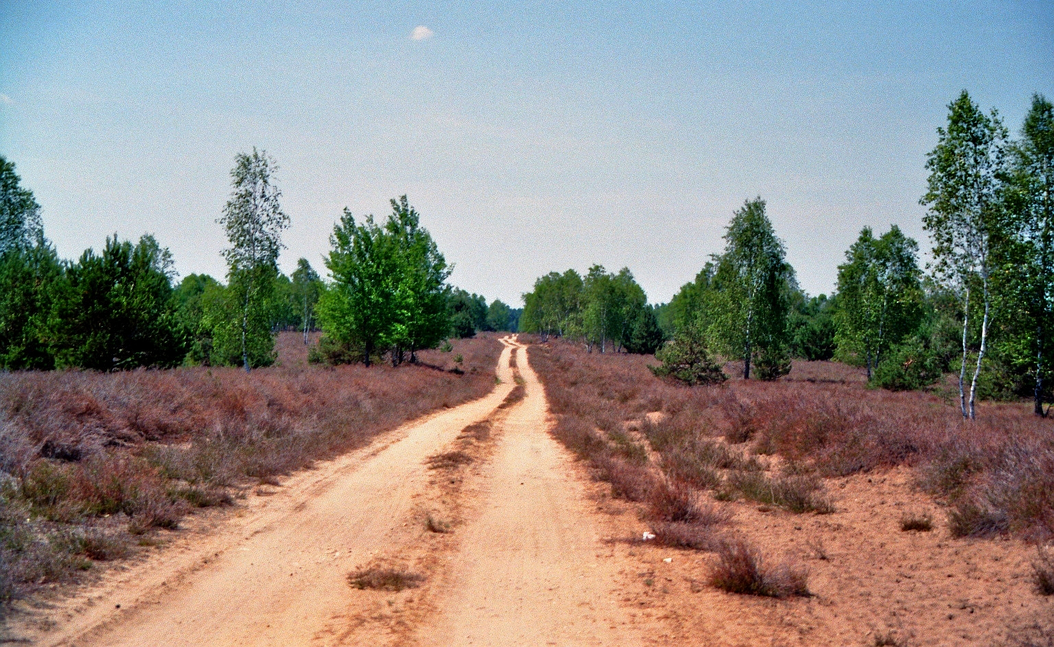 Reicherskreuzer Heide in Brandenburg, Germany.